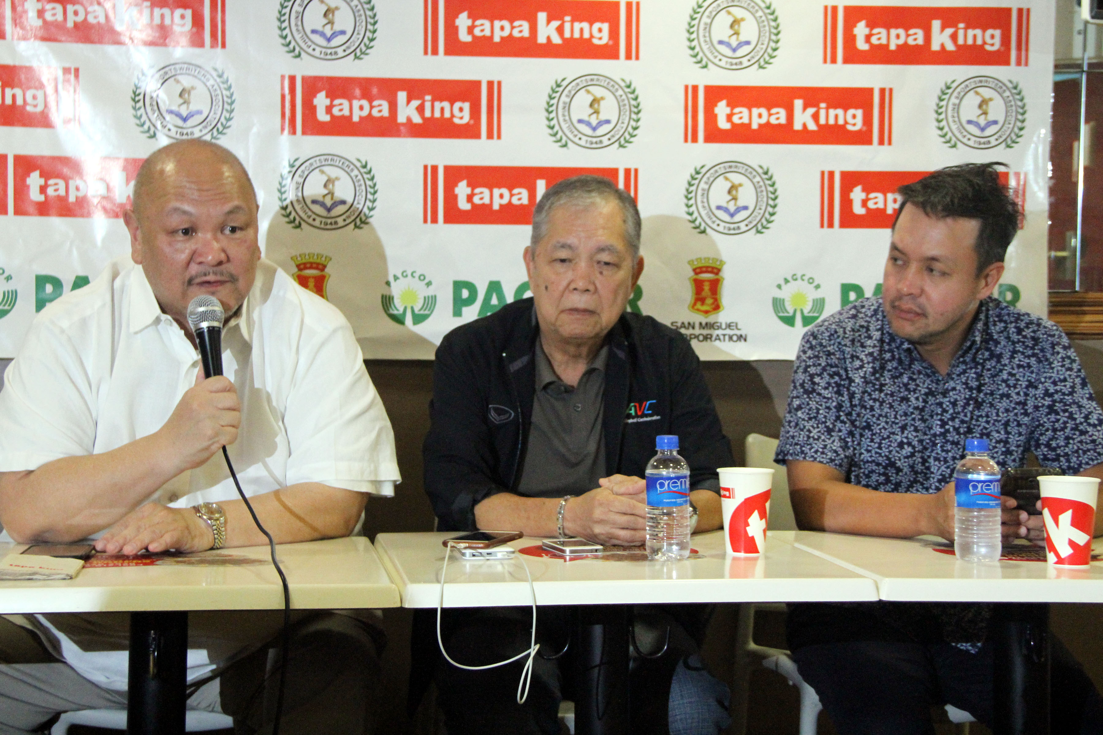 Arellano University's Peter Cayco (left), new president of the Volleyball sa Pilipinas Inc., broke good news about the Philippine women's team and Larong Volleyball ng Pilipinas Inc.'s (LVPI's) commitment to bring back the glory of ladies' volleyball in the international scene in Okayama City, Japan for the first time in 36 years, during the Philippine Sportwriters Association (PSA) Forum at Tapa King Farmer's Plaza Cubao in Quezon City on Tuesday (August 07, 2018). The Japan event is part of the bigger participation in the 2019 Southeast Asian Games and Asian Cup in Thailand in September this year. Also in photo are (from right) PSL vice president Dr. Ian Laurel and LVPI vice president Joey Romasanta. (PNA photo by Jess M. Escaros Jr.)